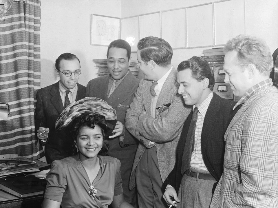 Ahmet M. Ertegun, Duke Ellington, William P. Gottlieb, Nesuhi Ertegun, David Stuart (misspelled "Stewart" in the source file) and unknown woman, at William P. Gottlieb's home, Maryland, 1941 (Photograph by Delia Potofsky Gottlieb - The William P. Gottlieb Collection)